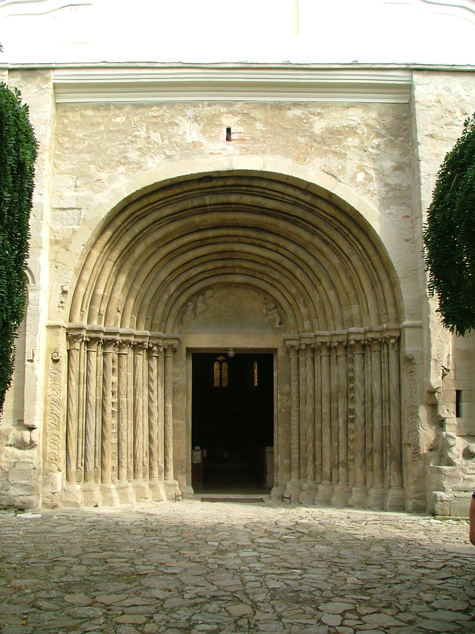 Gate of the Saint Peter and Saint Paul (roman catholic) church in Sopronhorpács This is a photo of a monument in Hungary, Identifier: 5103